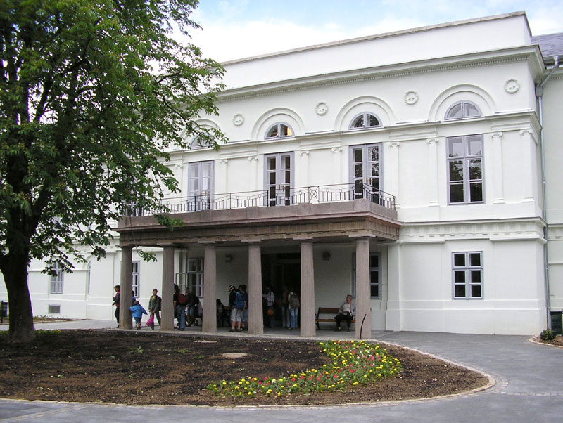 The Mátra Museum in Gyöngyös, Hungary